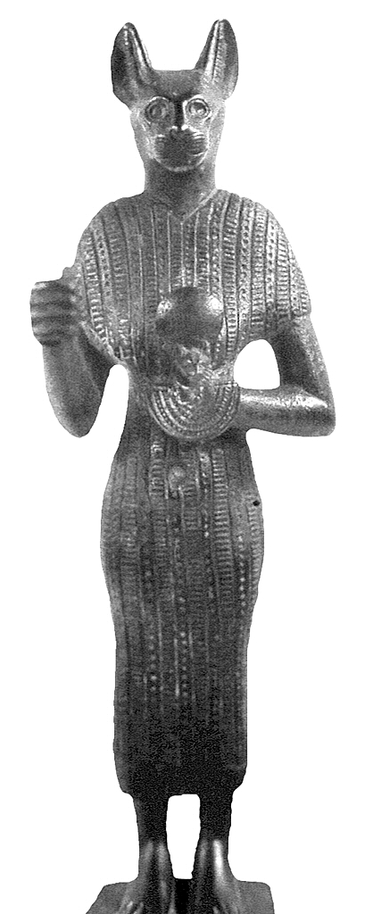 The ancient Egyptians donated figures of their gods for use in temple rituals; smaller images served as amulets to ensure divine protection. Goddesses in particular were viewed as protective deities. From earliest times, Egyptian venerated a wide circle of feline-headed female deities, such as Sekhmet, Tefnut, Wadjet, and Bastet. This statuette of a standing Bastet has an usekh-collar with a lioness head in her hand as a protective symbol. The inscription on the base names the donor of the figure.